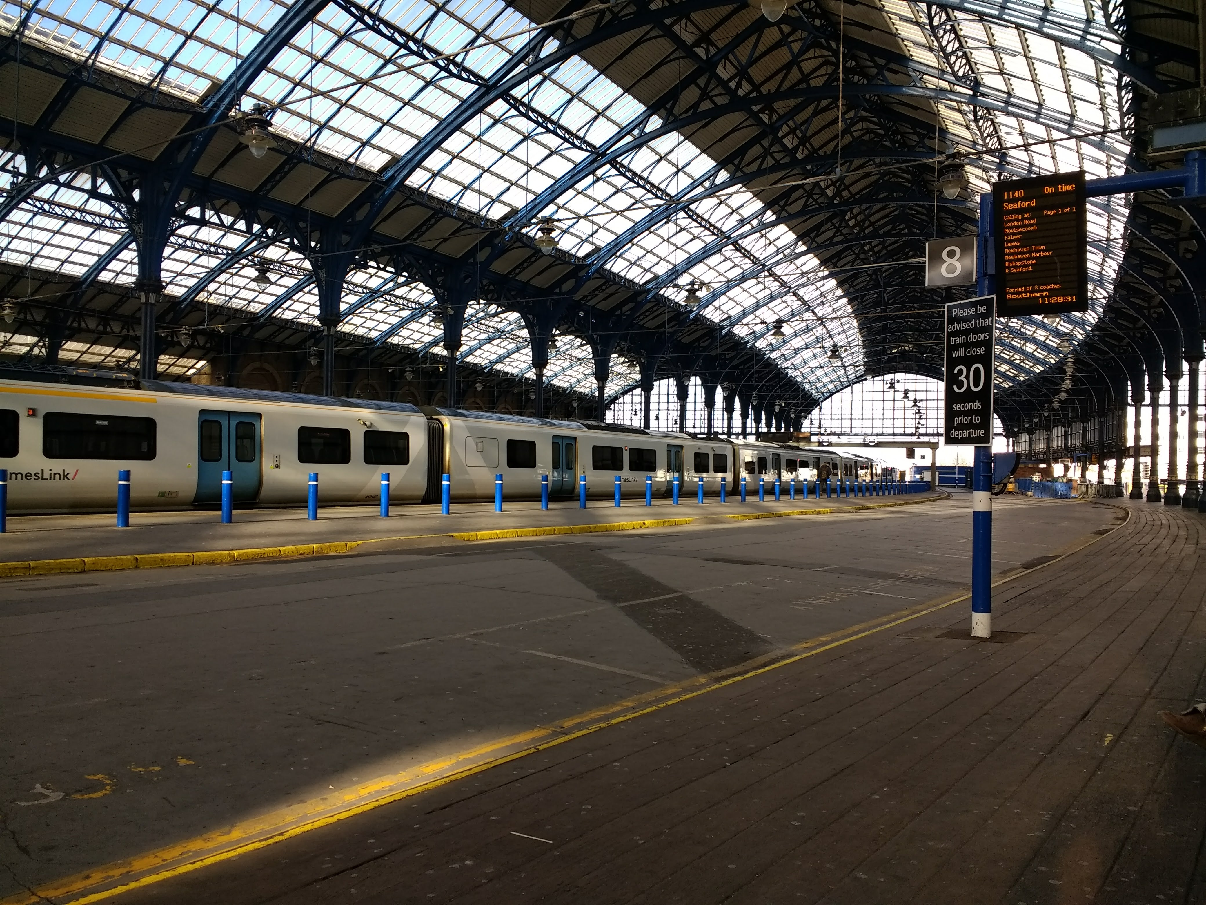 Brighton railway station on a cold and sunny day, sitting at platform 8 and looking in the direction of platform 1. The train in view of the photo is a British Rail Class 700.